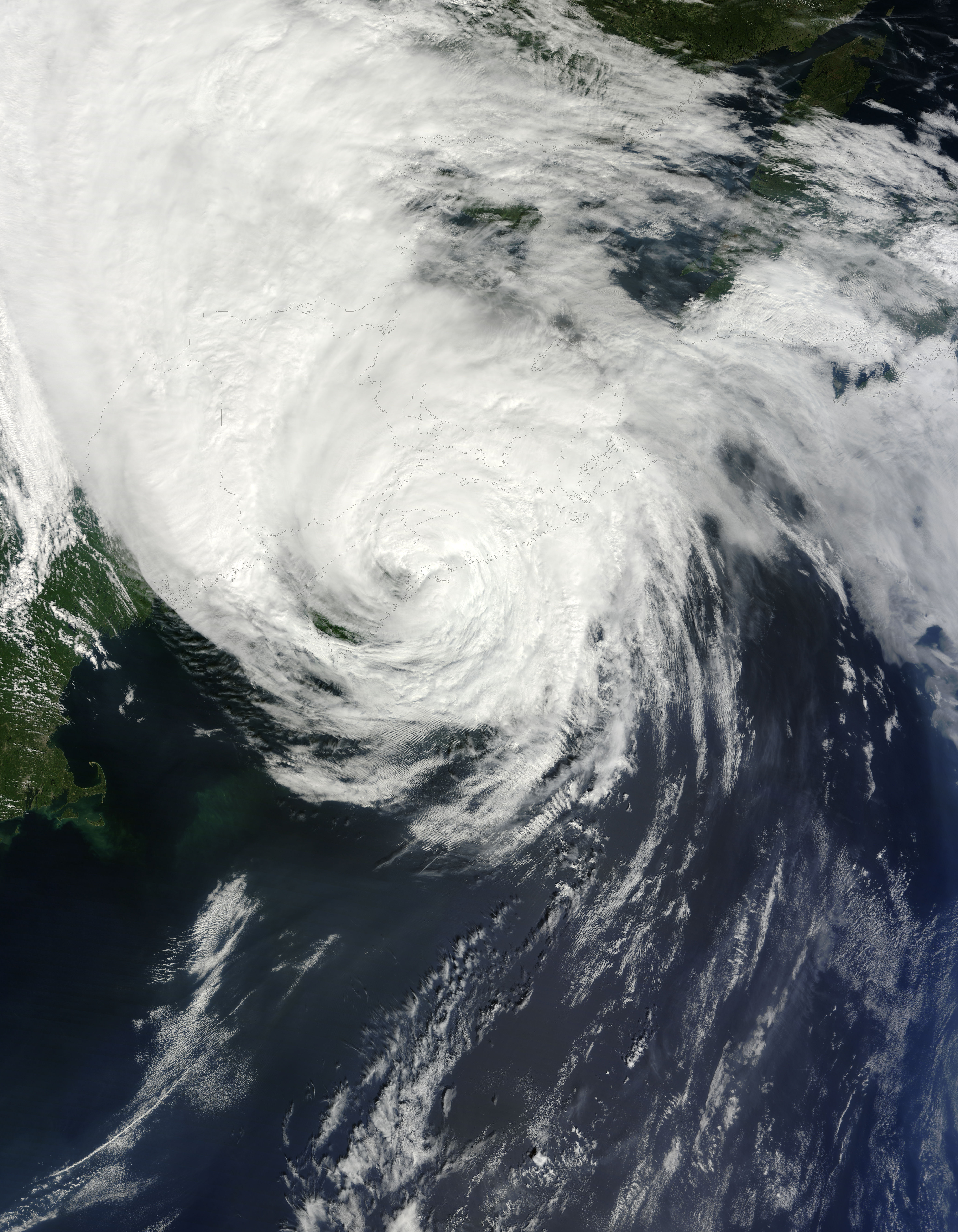 Tropical Storm Earl making landfall in Nova Scotia.